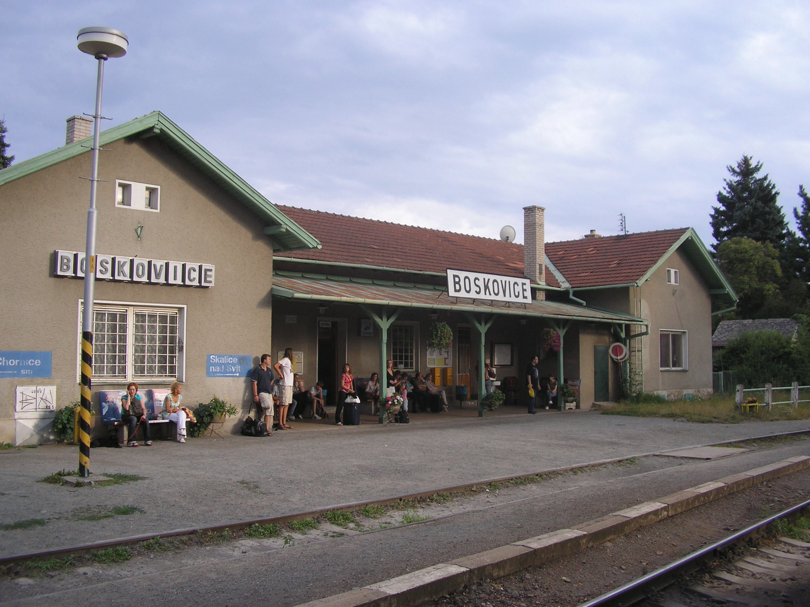 Boskovice, Blansko District, Czechia. Train station.